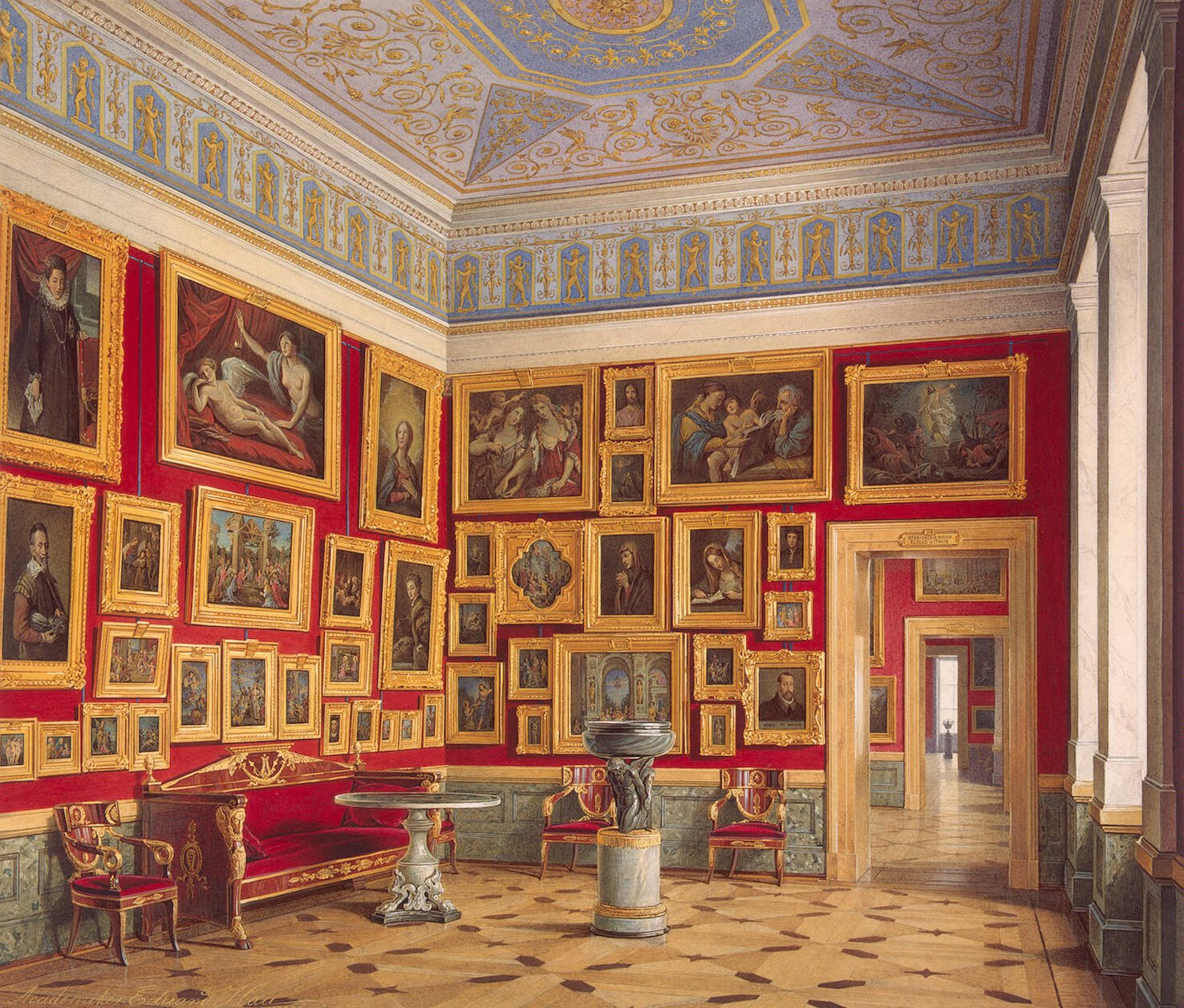 Interiors of the New Hermitage. The Study of Italian Art